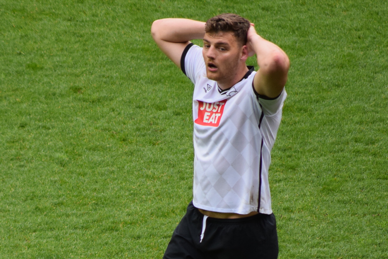 Chris Martin, Derby